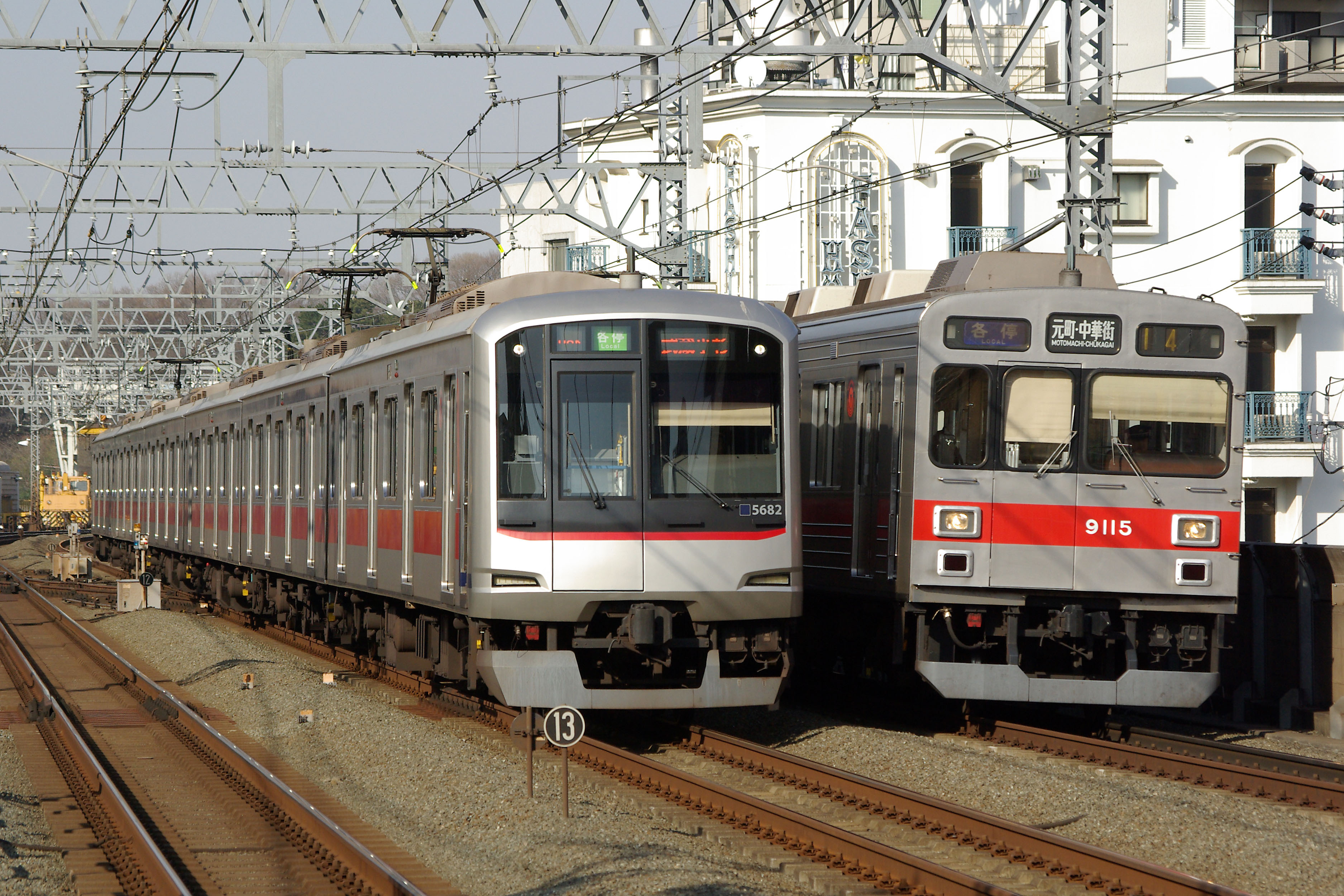 the Tokyu 5080 series train (left, Meguro Line) and the Tokyu 9000 series train (right, Tōyoko Line) approaching Shin-Maruko Station